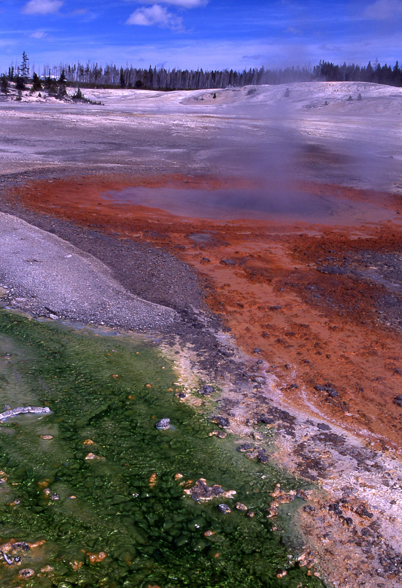 Whirligig Geyser, Norris Geyser Basin, Yellowstone National Park, Wyoming